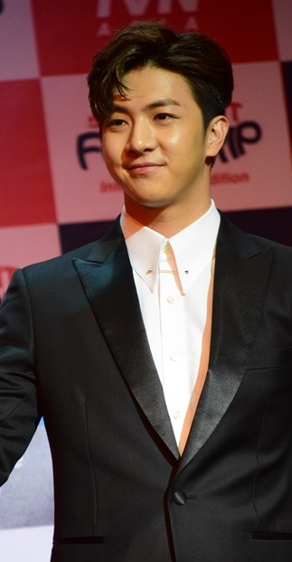 Thunder